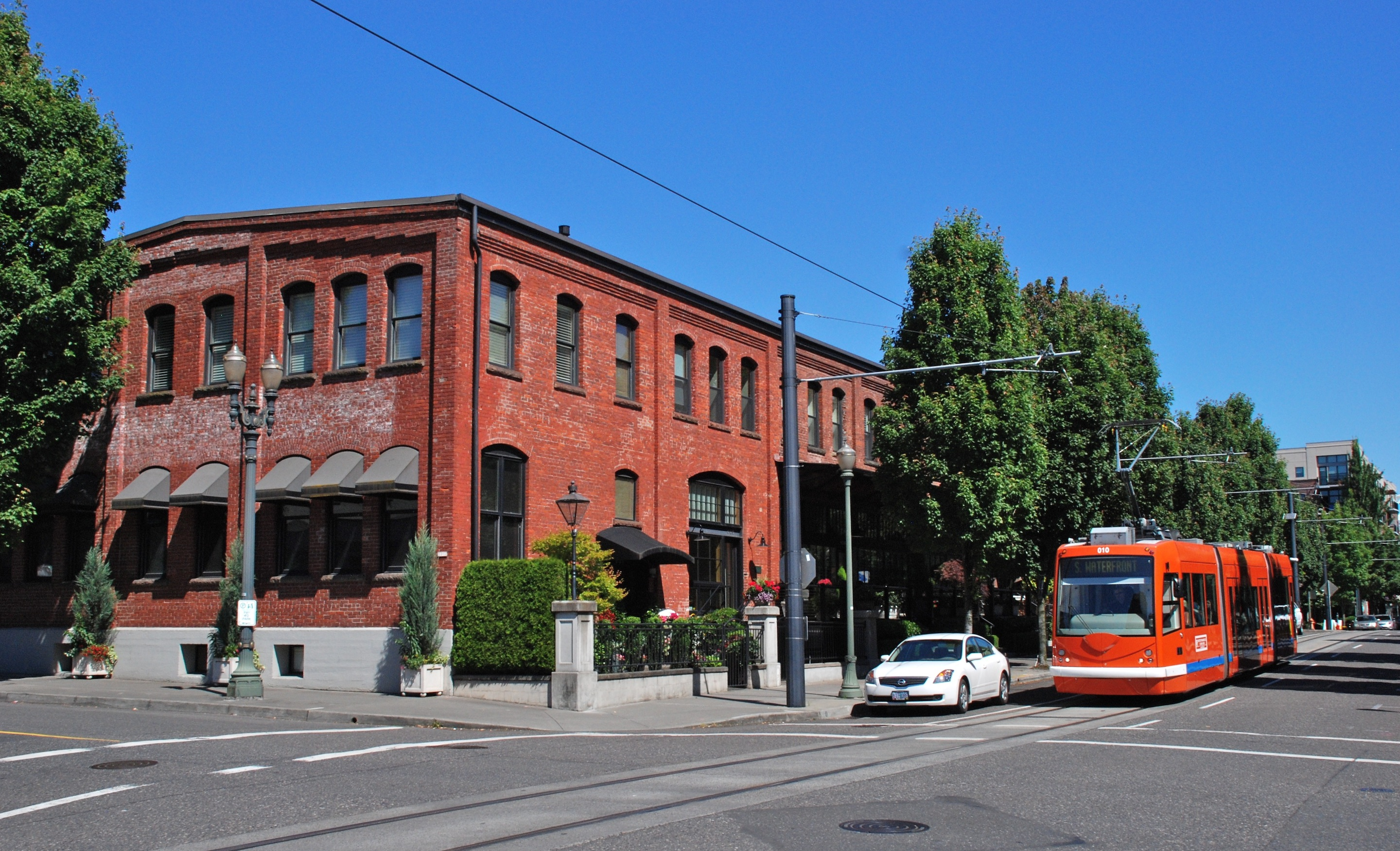 The North Bank Depot, west building, at NW 11th Avenue and Hoyt Street in Portland, Oregon, with 2006-built Inekon streetcar 010 of the Portland Streetcar system passing on 11th. This and a matching building across the street are listed on the US National Register of Historic Places (NRHP). The buildings were also known as the East and West Freight Houses of the Spokane, Portland and Seattle Railway, the formal name of the North Bank (Rail-) Road. The west building was used only for freight; the east building (not visible here) was also used as a passenger station. In the mid- to late 1990s the buildings were refitted for use as residential dwellings.